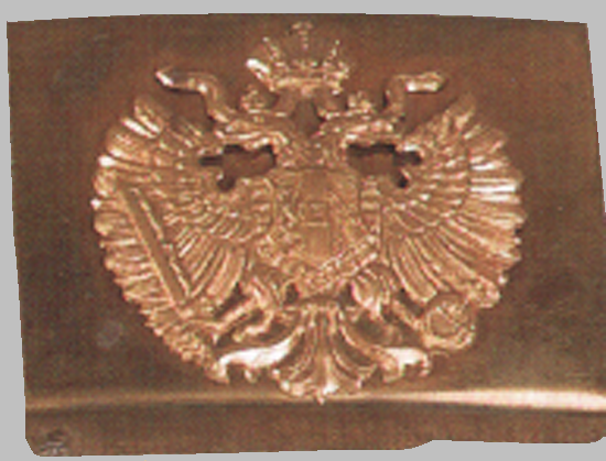 Belt buckle of the Austria-Hungarian Army